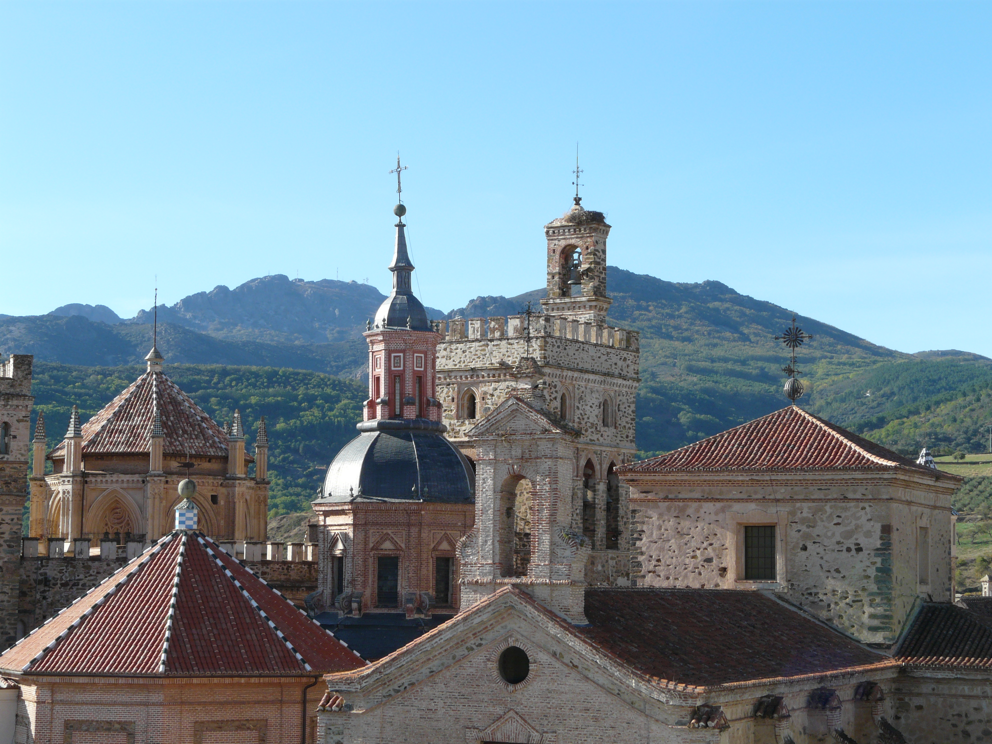 Roofs of Guadalupe monastery, Estremadura, Spain